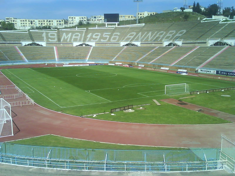 Picture of Algerian stadium Stade 19 Mai 1956 in Annaba, Algeria